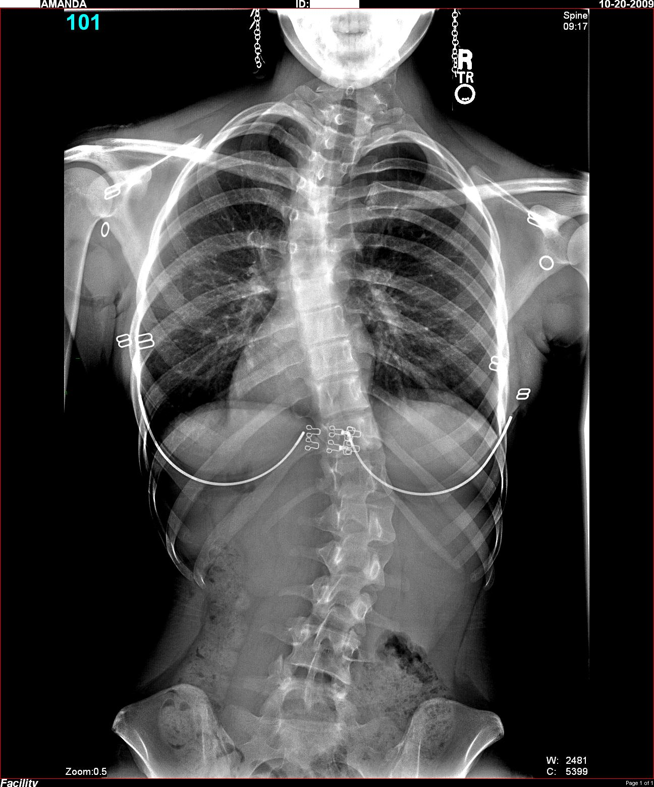 X-ray of U.S. girl, age 16 years 8 months, with pre-operative scoliosis. Front, standing, clothed.